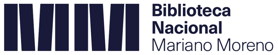 Logo of the National Library of the Argentine Republic "Mariano Moreno".